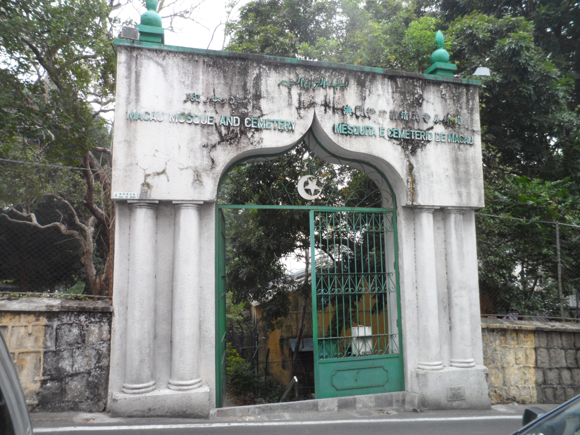 Macau Mosque and Cemetery Gate, Ramal Dos Moros, Our Lady of Fatima Parish, Macau, China